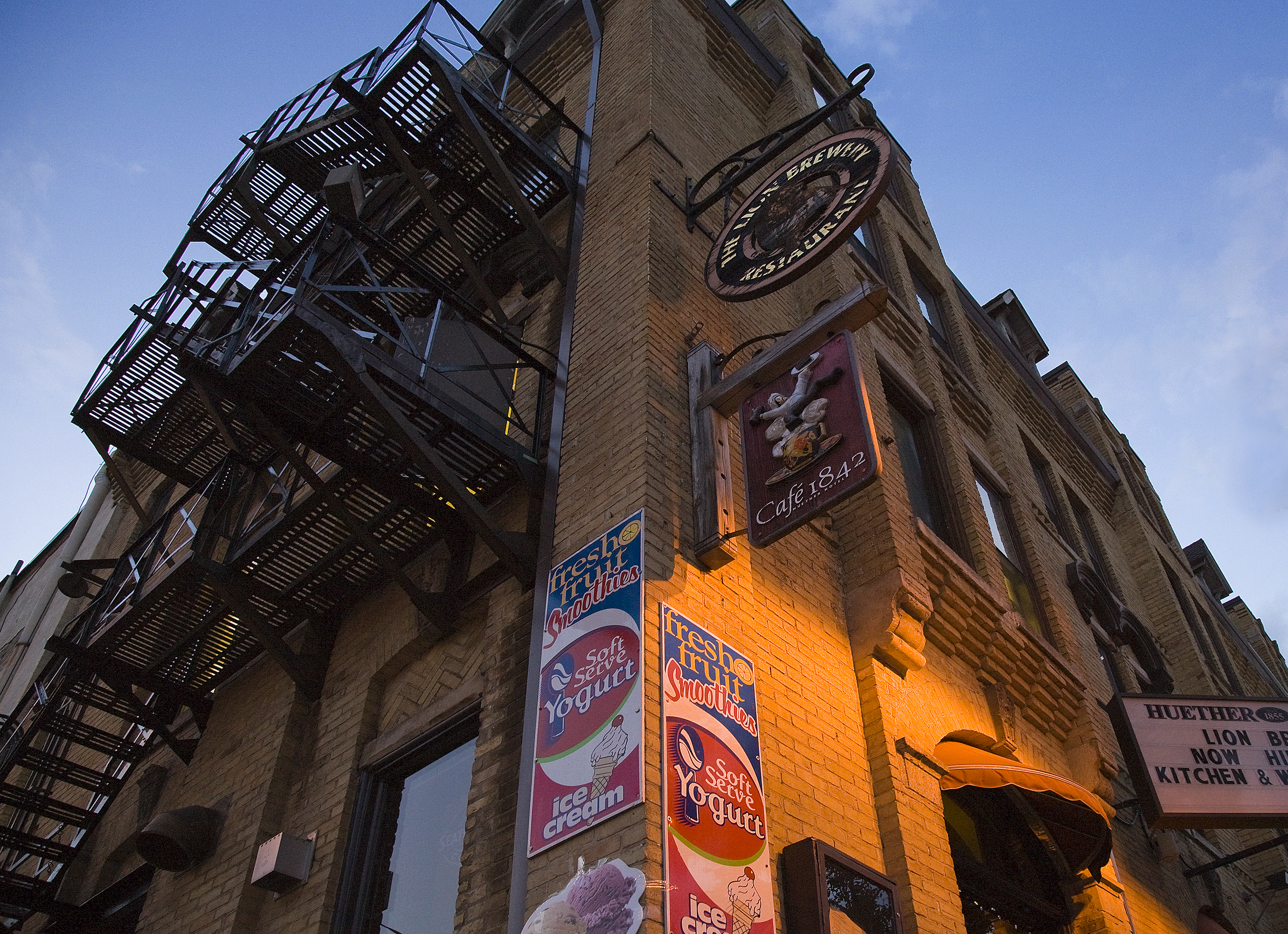 The Huether Hotel, located at 59 King Street North is situated at the northwest corner of King and Princess Streets in the uptown area of the City of Waterloo. The property consists of a four-storey brick and stone hotel, the original portion of which was constructed in 1855, with additions in 1870 and 1880. Said to be the first brewery in Waterloo Region